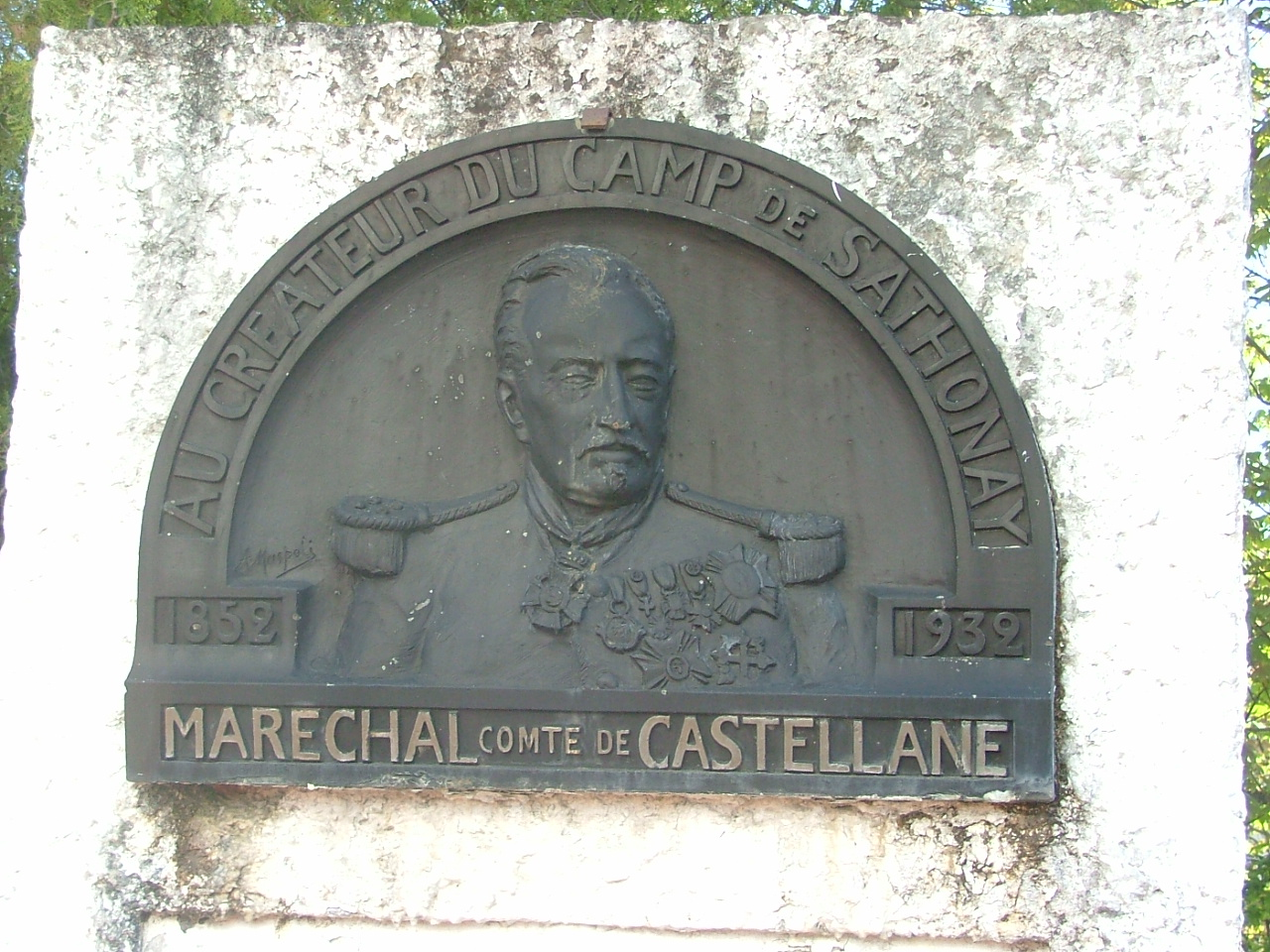 Maréchal de Castellane, pictured in Sathonay-Camp (France)